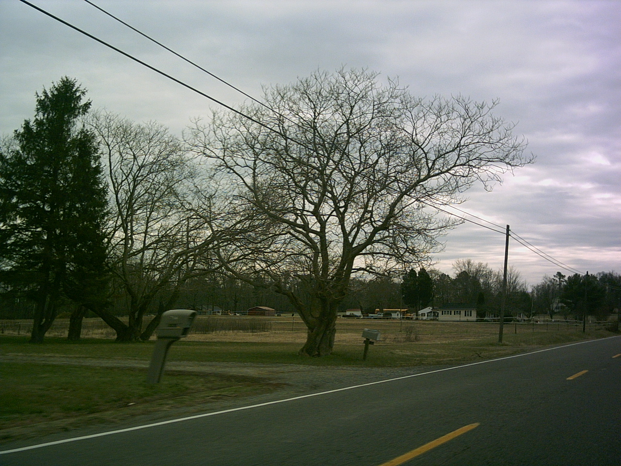 Passing through Robley, Virginia